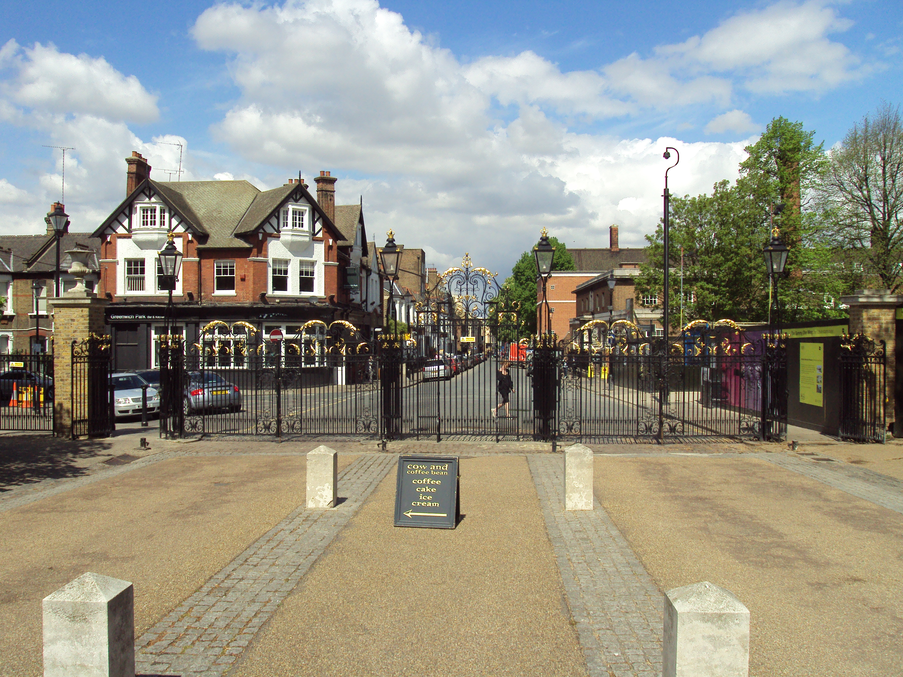 Greenwich Park gates leading to King William Walk, Greenwich.